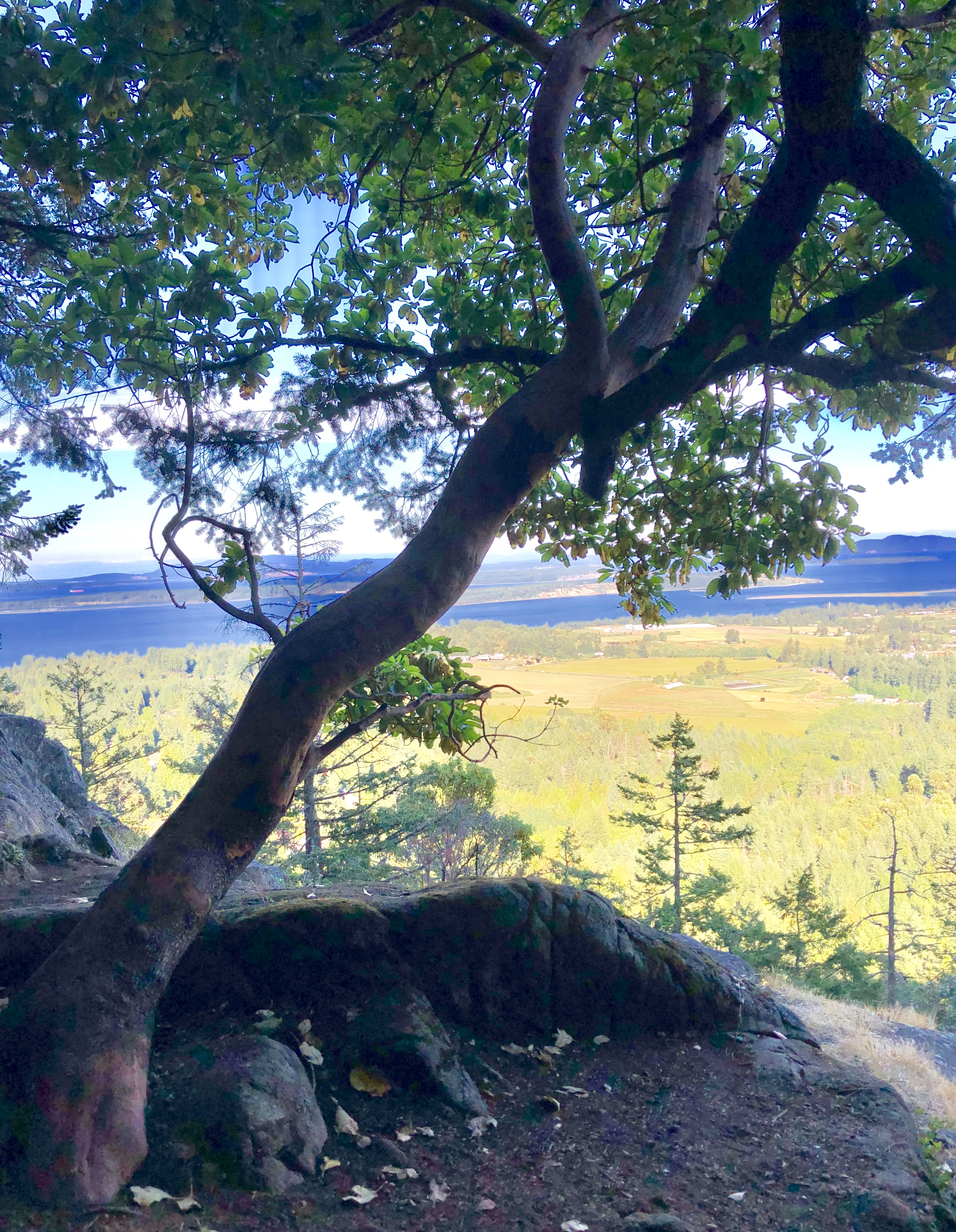 Arbutus Tree at John Dean provincial park on Vancouver Island , BC.